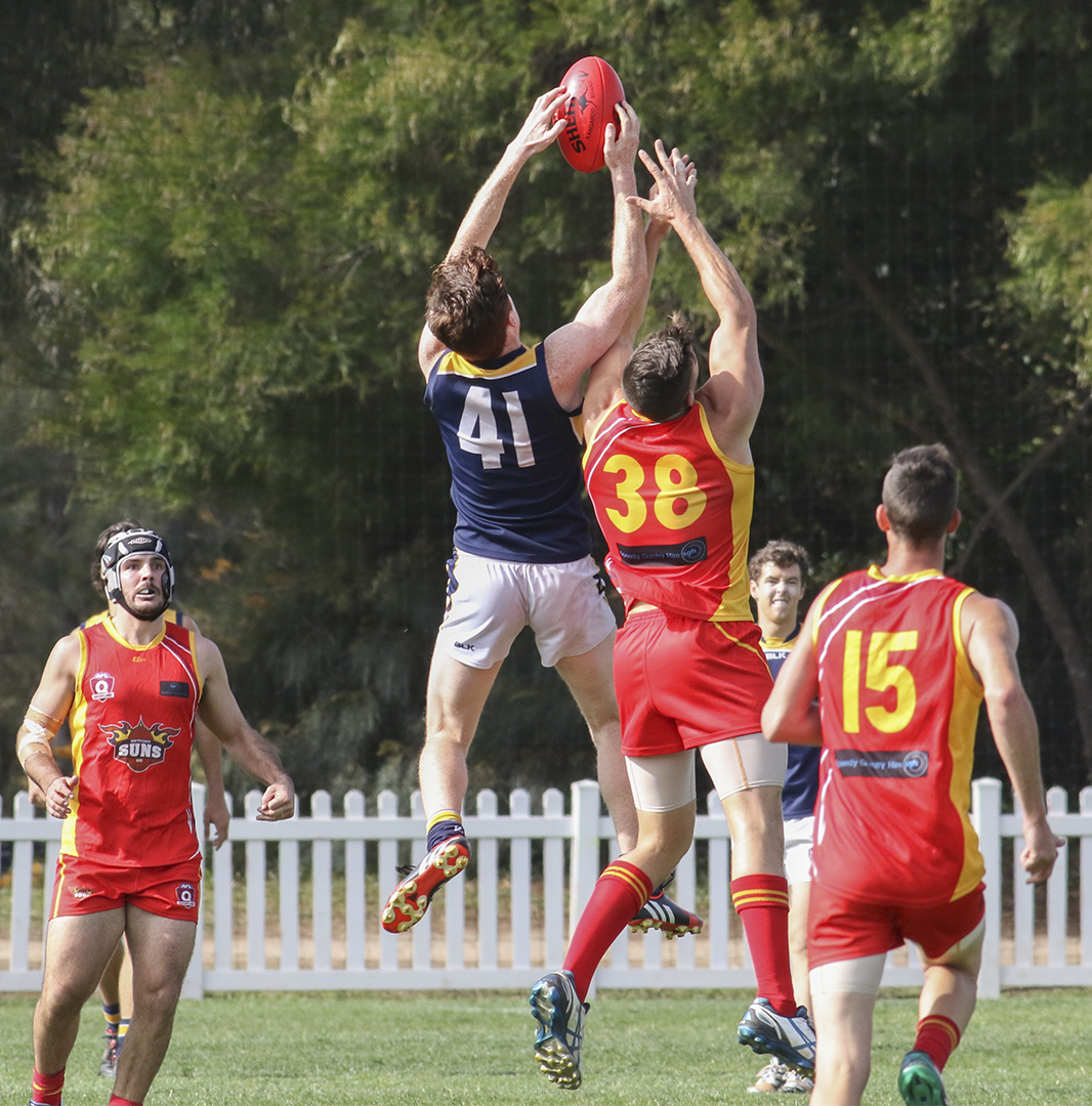 Two players leaping for a mark.